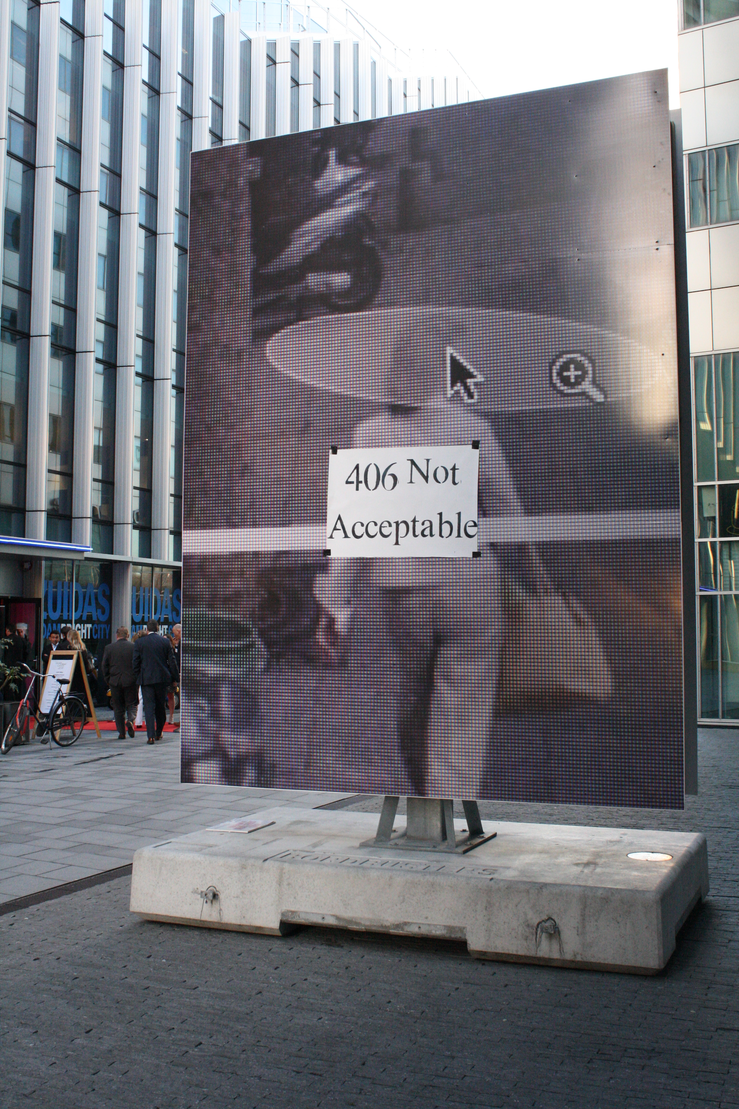 Michael Wolf 406 Not Accceptable